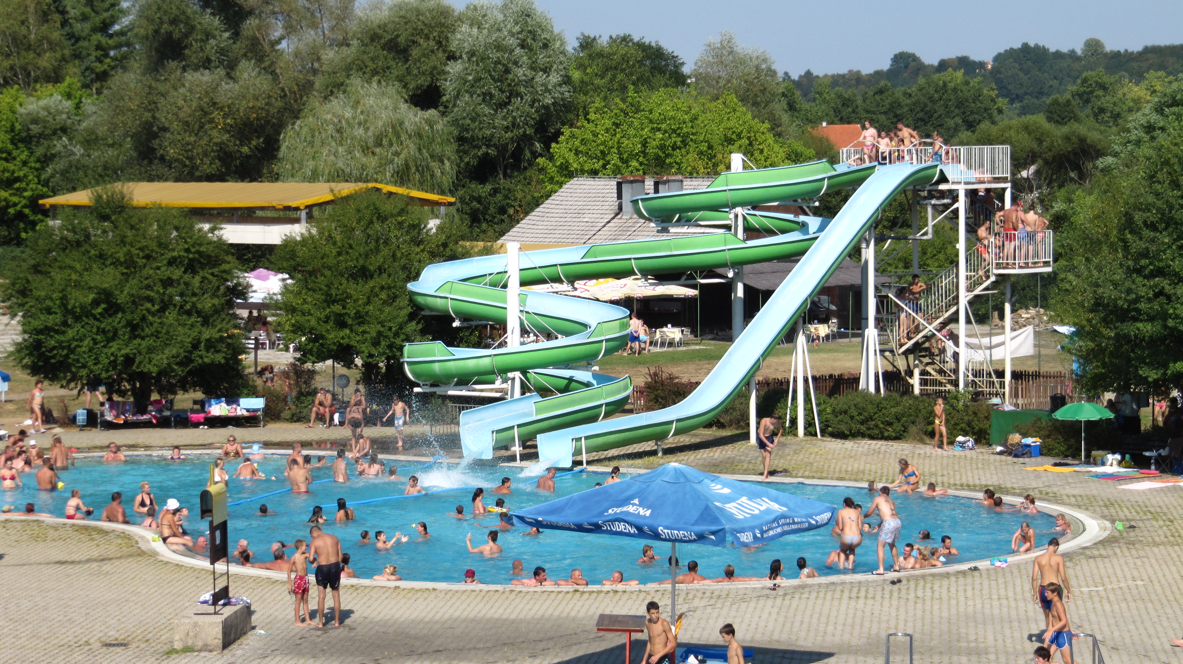 Water slide in Topusko, Croatia